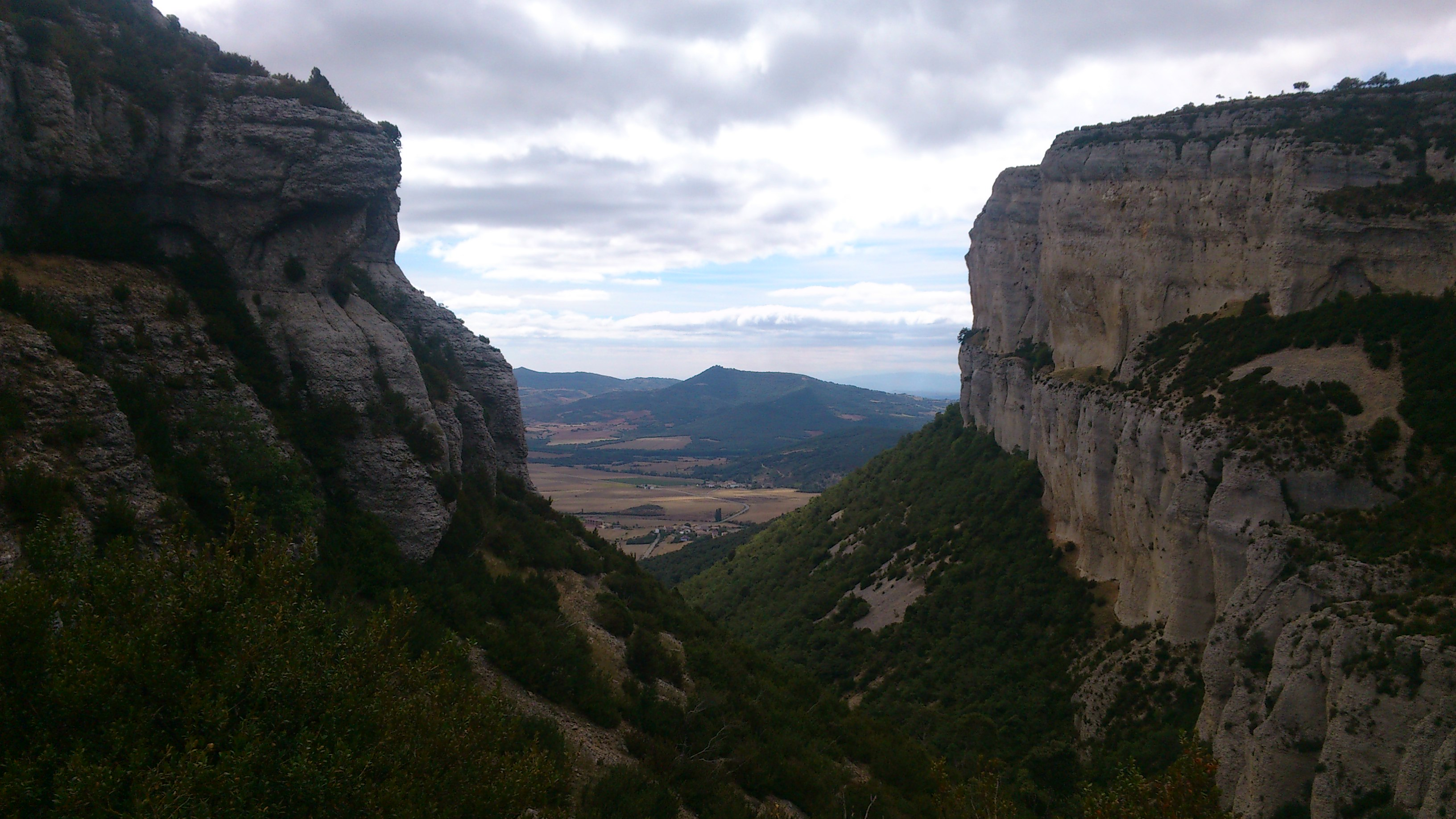 Lokiz mountain